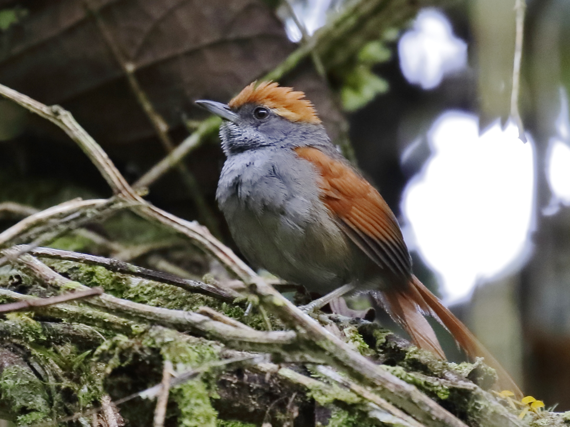 Bahia Spinetail; Boa Nova, Bahia, Brazil